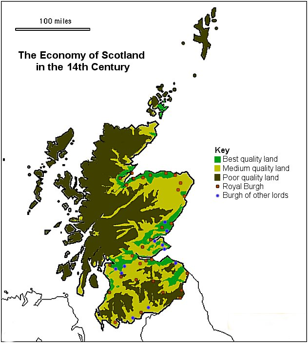 A map of Scotland showing burghs and quality of land